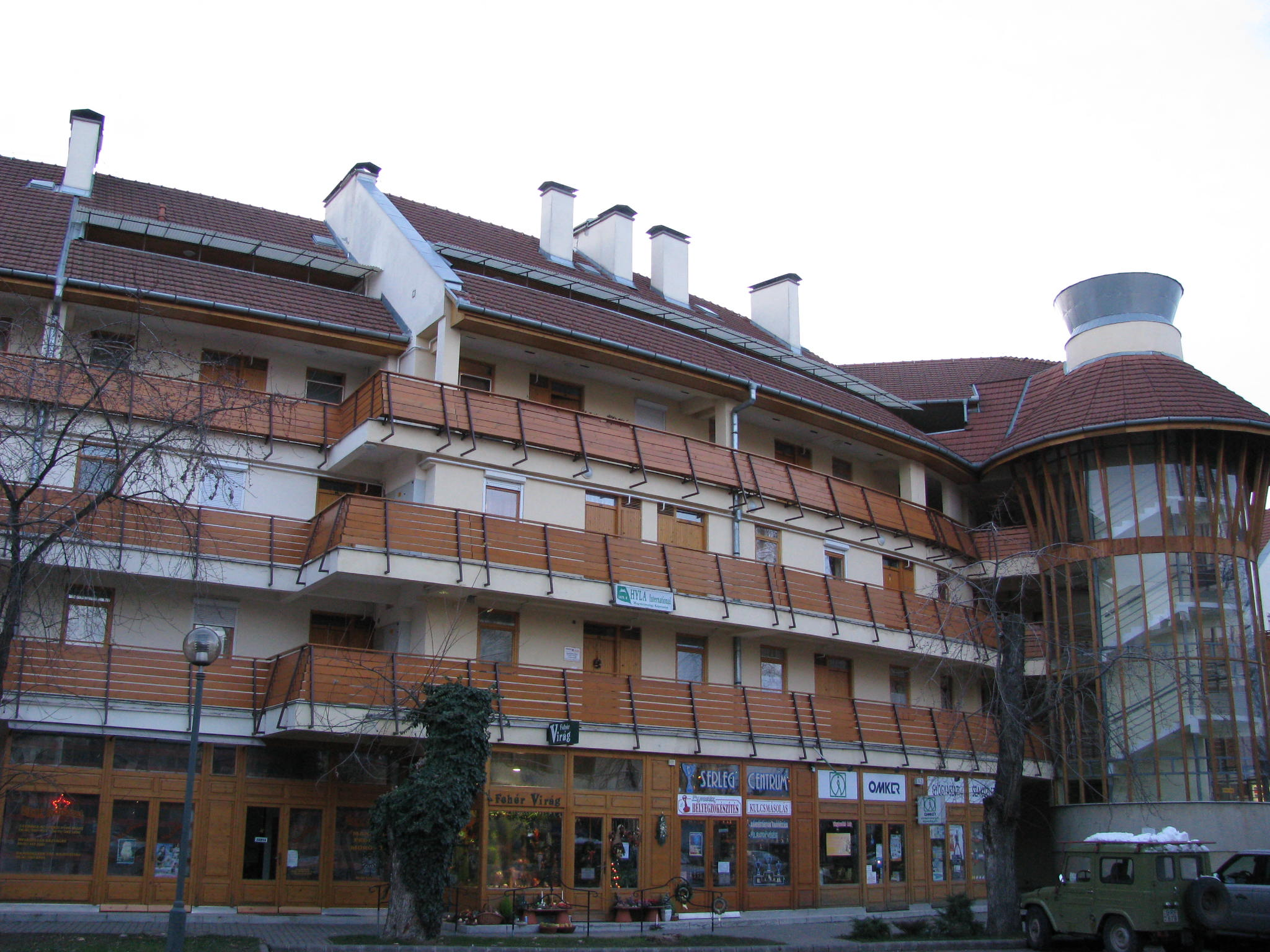 Mansions near Csaba Center, or part of the Center in Békéscsaba, Hungary